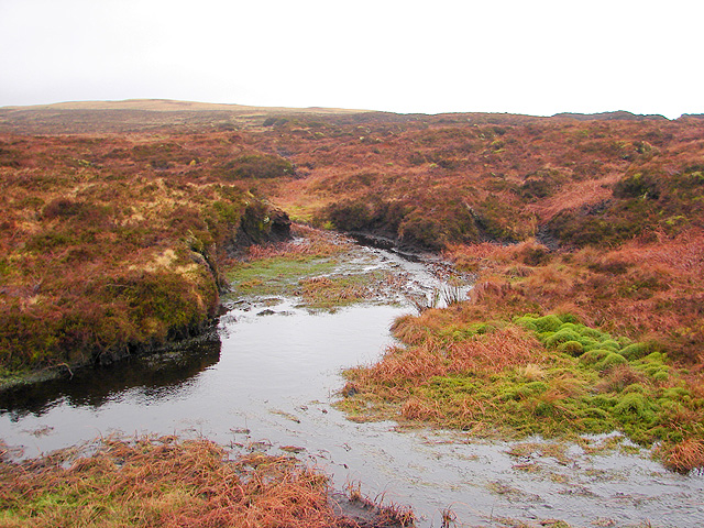 Upland bog which forms the official source of the Severn